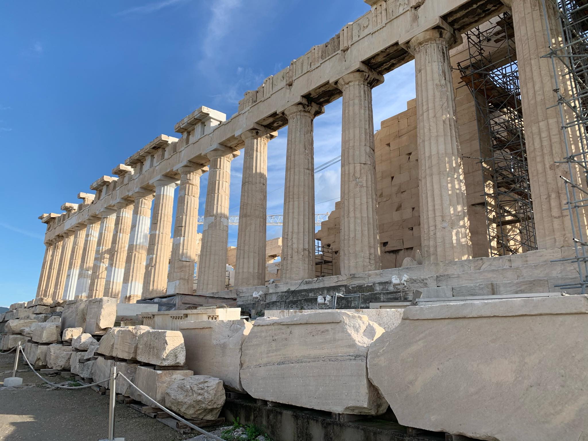 Древногръцки храм